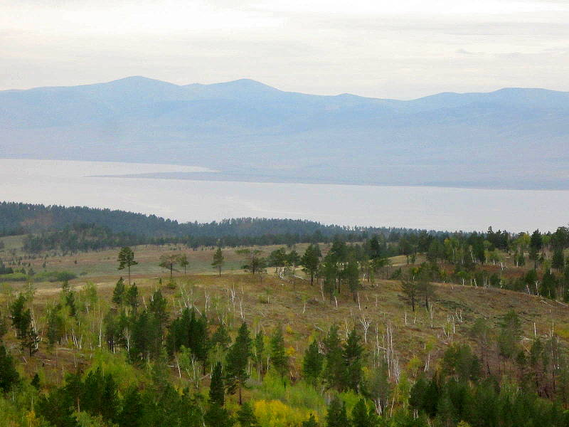 Гусиное озеро. Вид с хребта Моностой.